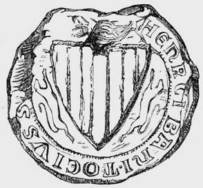 Seal (emblem) of Hendrik Güns, Ban of Slavonia